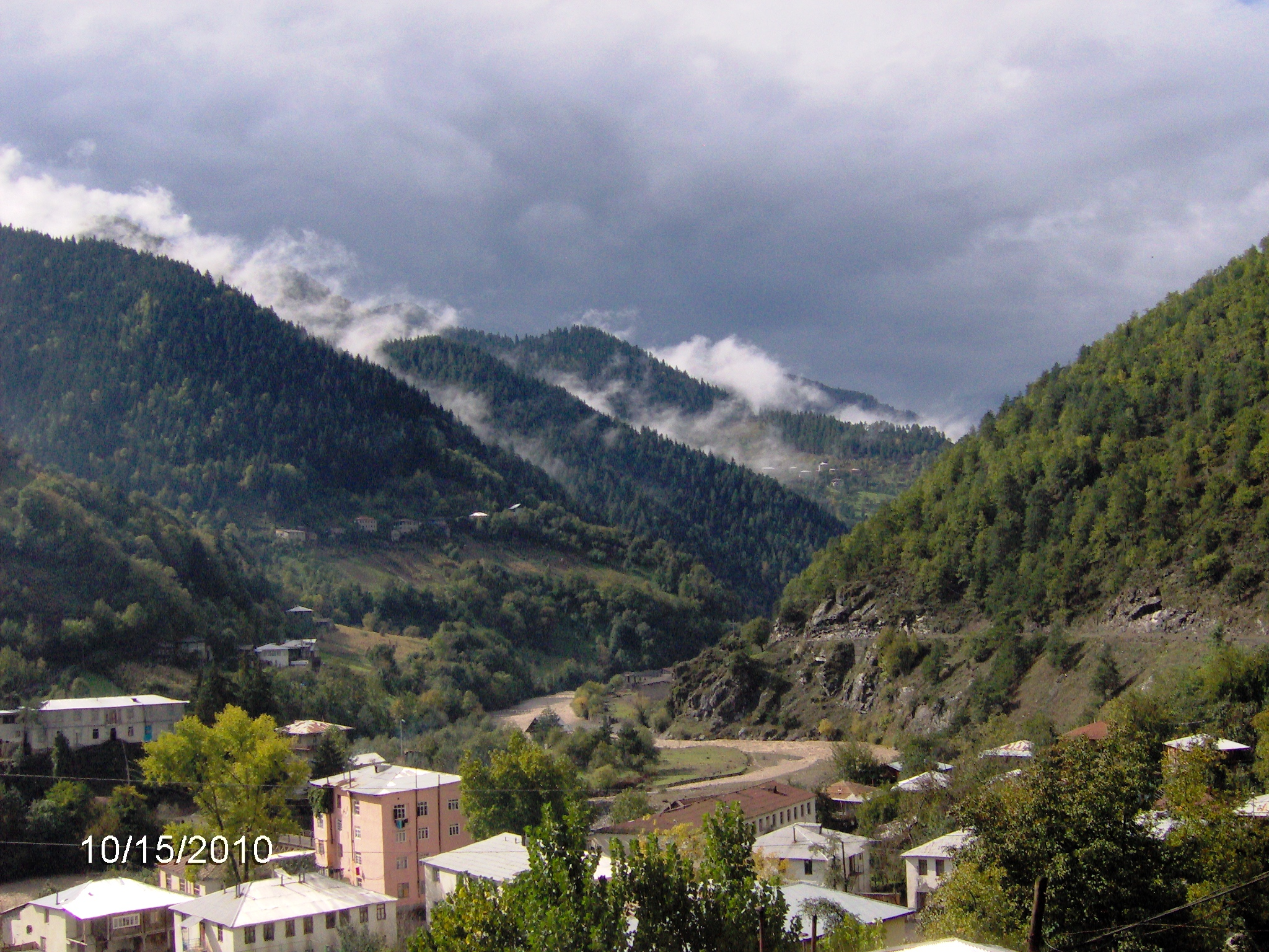 Shuakhevi